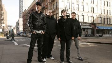 kqsjfklqjf